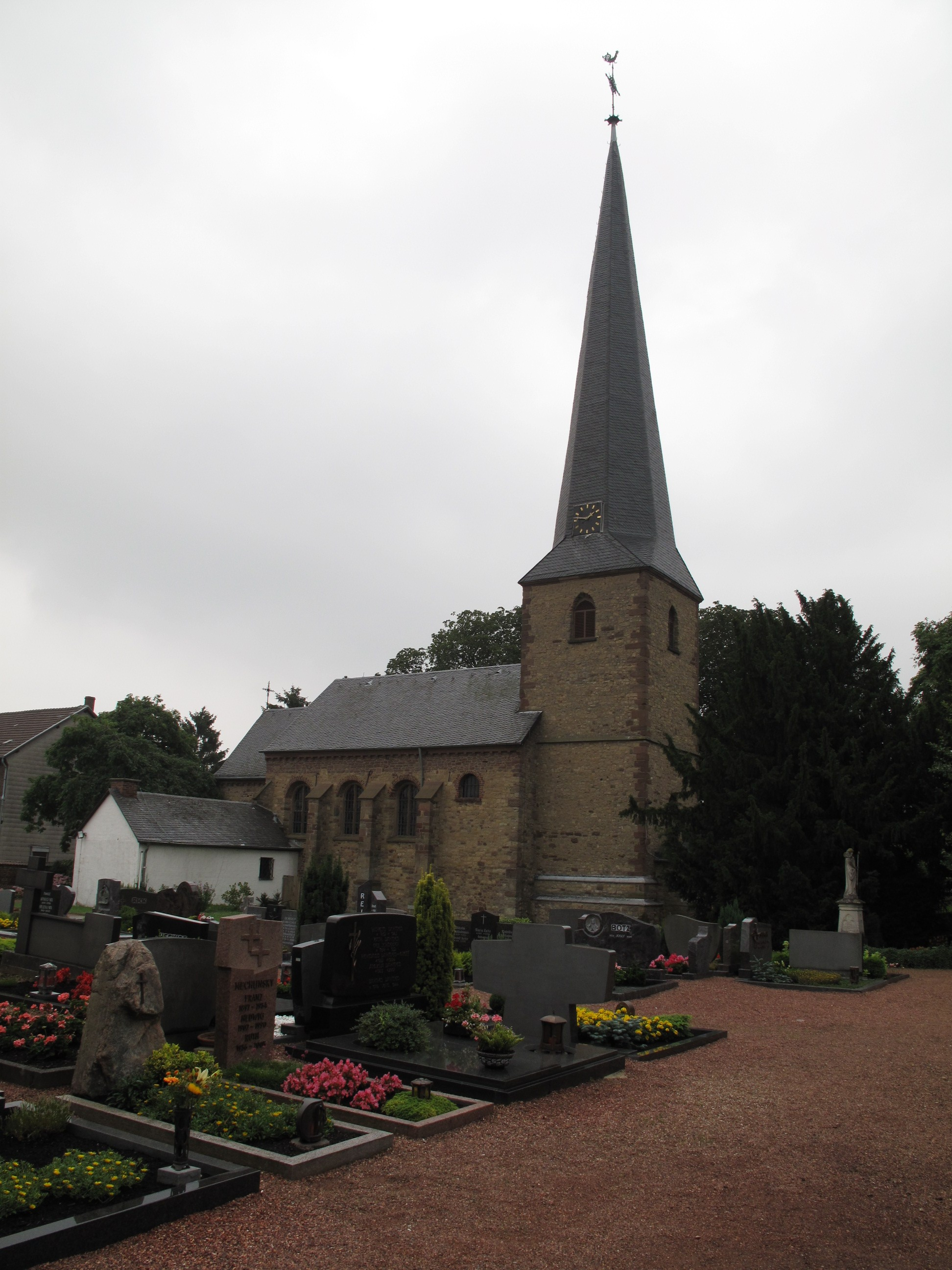 Soller, church